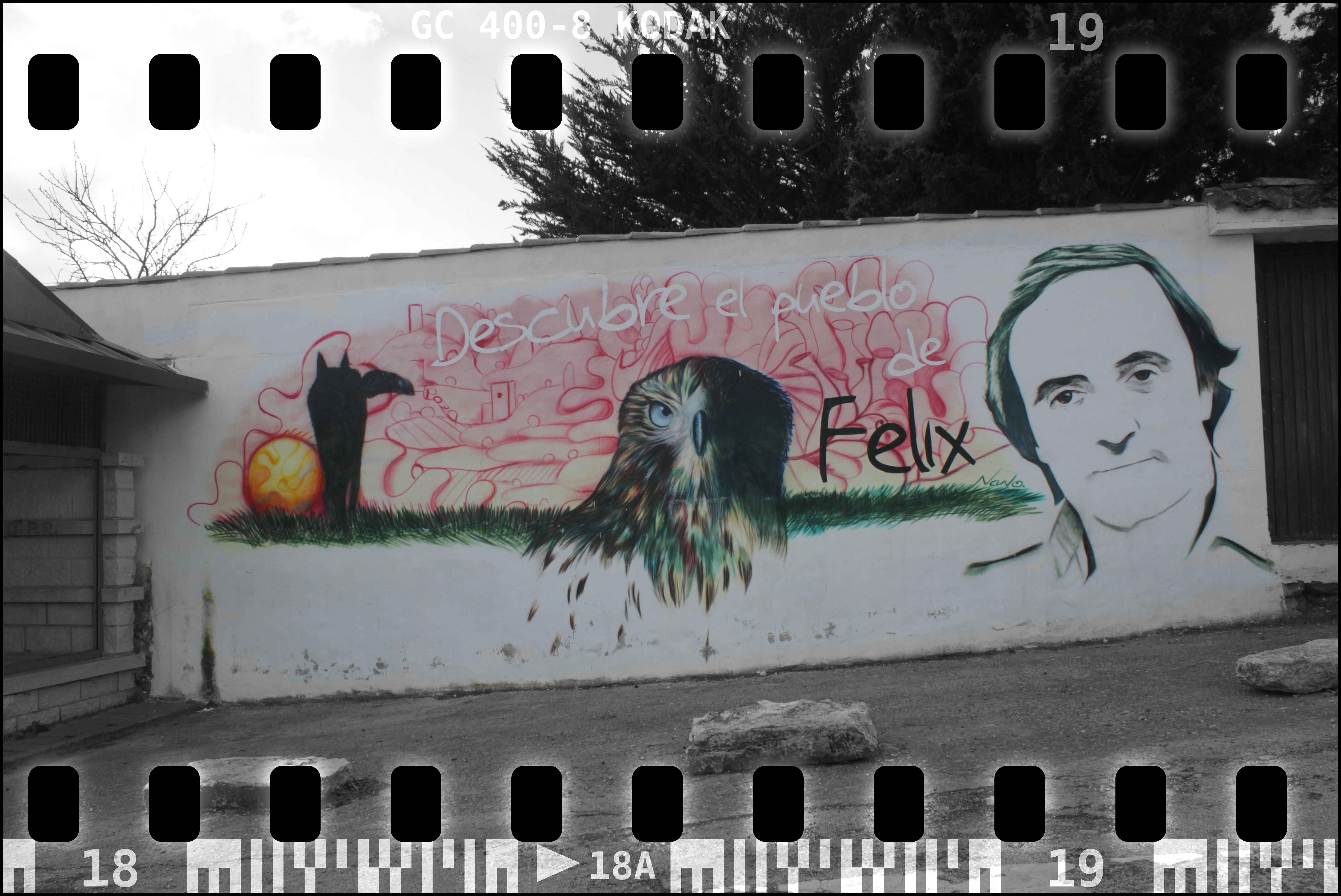 Grafitti of Félix Rodríguez de la Fuente in his hometown of Poza de la Sal, Burgos